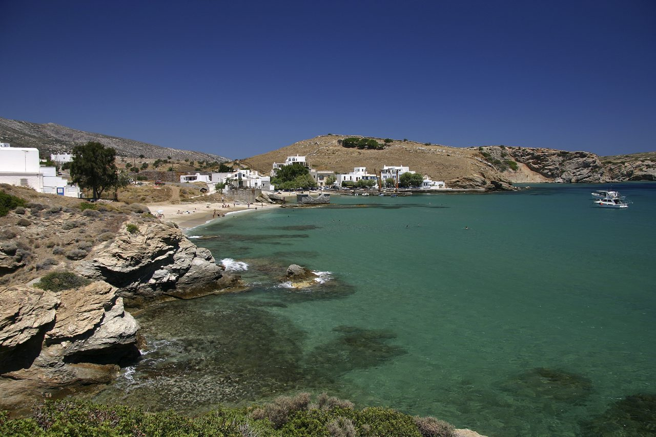 Moutsouna is a little seaside village with taverns at Naxos island, Greece.